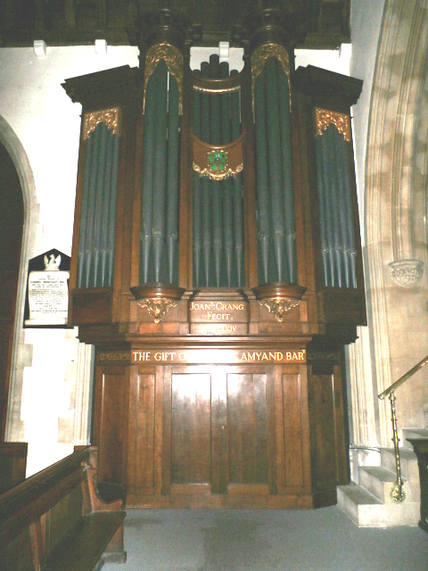 Pipe organ in SS Peter and Mary Magdalene parish church, Barnstaple, Devon. One of the largest organs in Devon. John Crang made it in 1764, paid for by Sir George Aymand, Bart (1720–1766), MP for Barnstaple 1754–66.[1] It is decorated with his armorials: Vert, a chevron between three gauntlets or with an inescutcheon of unidentified arms. The current organ case was designed by John Oldrid Scott and made in 1882.